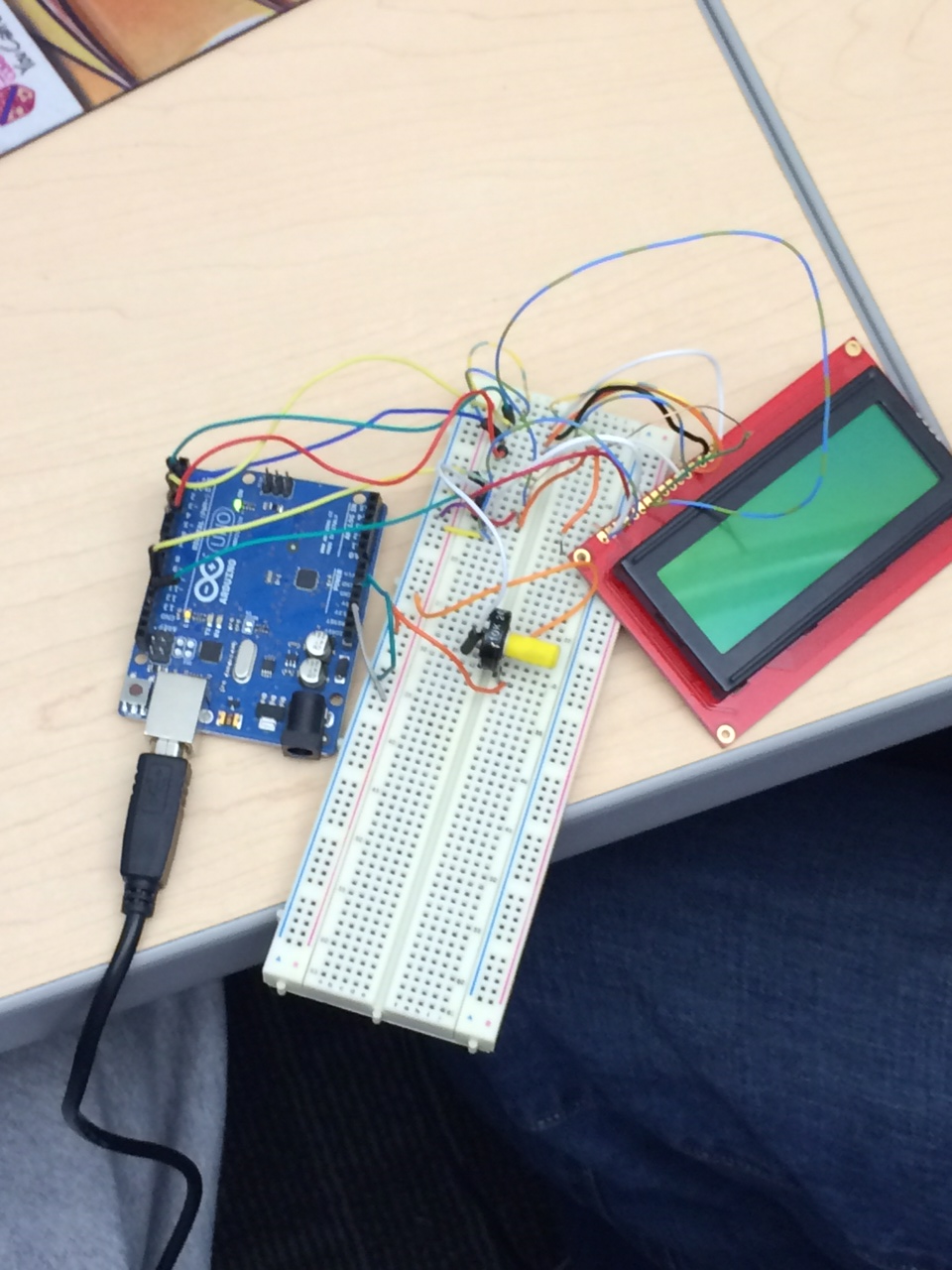 physical wiring for screen